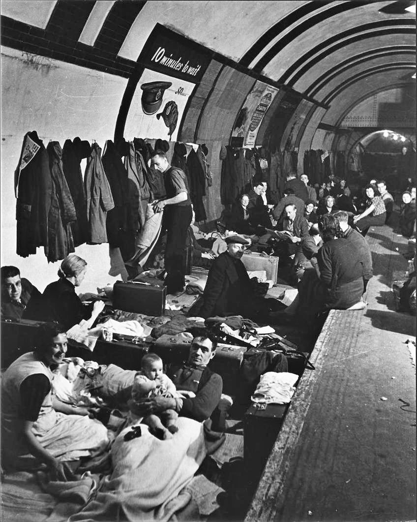 An Air raid shelter in a London Underground station in London during The Blitz.